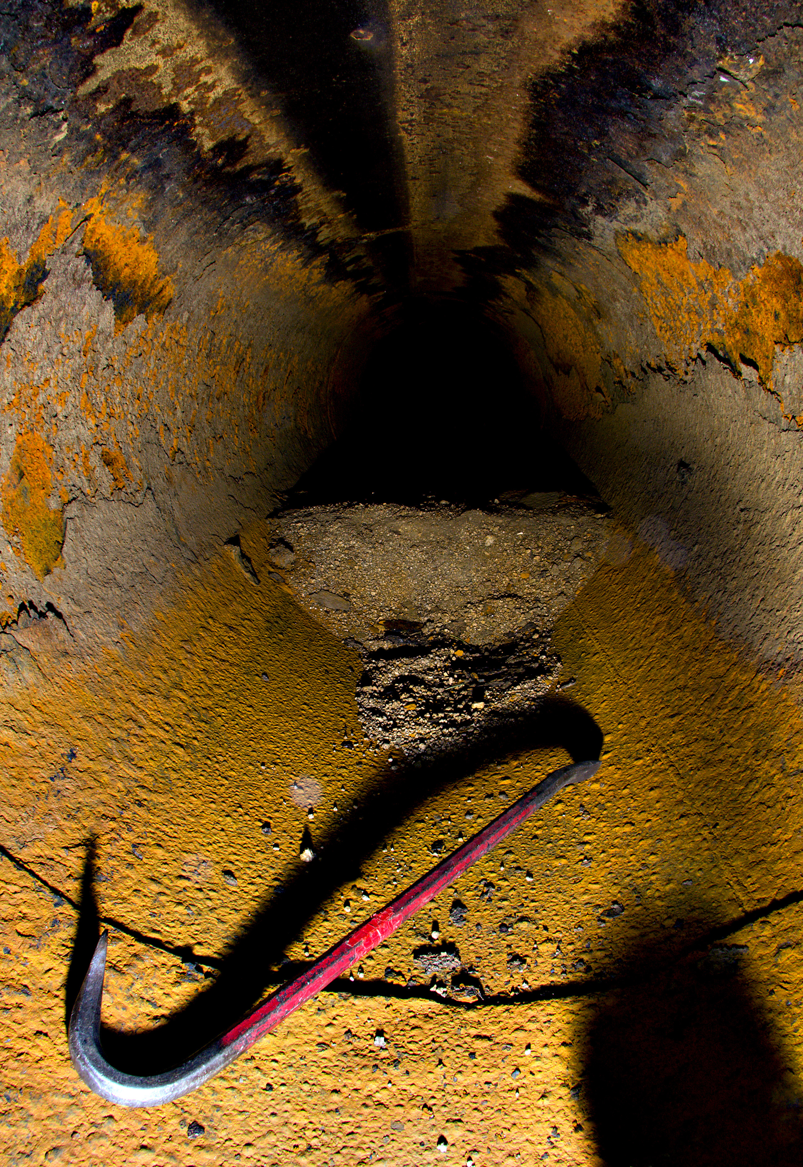 The crowbar used by Gordon Freeman in Half-Life. From Flickr: "You know how it goes. You go for a bike ride up the Canyon path, and you spot this decrepit old ladder you'd never noticed before, through the brush off the trail. And you've just got to see where it goes. It takes you to the top of this big, old, rusty pipe. You climb on top, and walk along it for a little while.. and there's a section cut out of it, where you could crawl inside, if you wanted to. And there's this oddly familiar crowbar inside. No?"